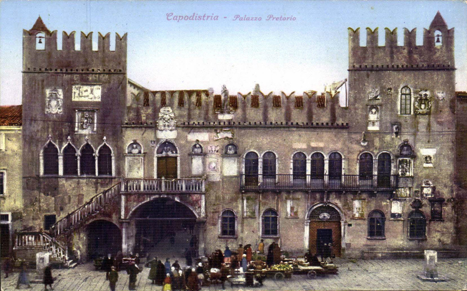 Postcard of Praetorian Palace.